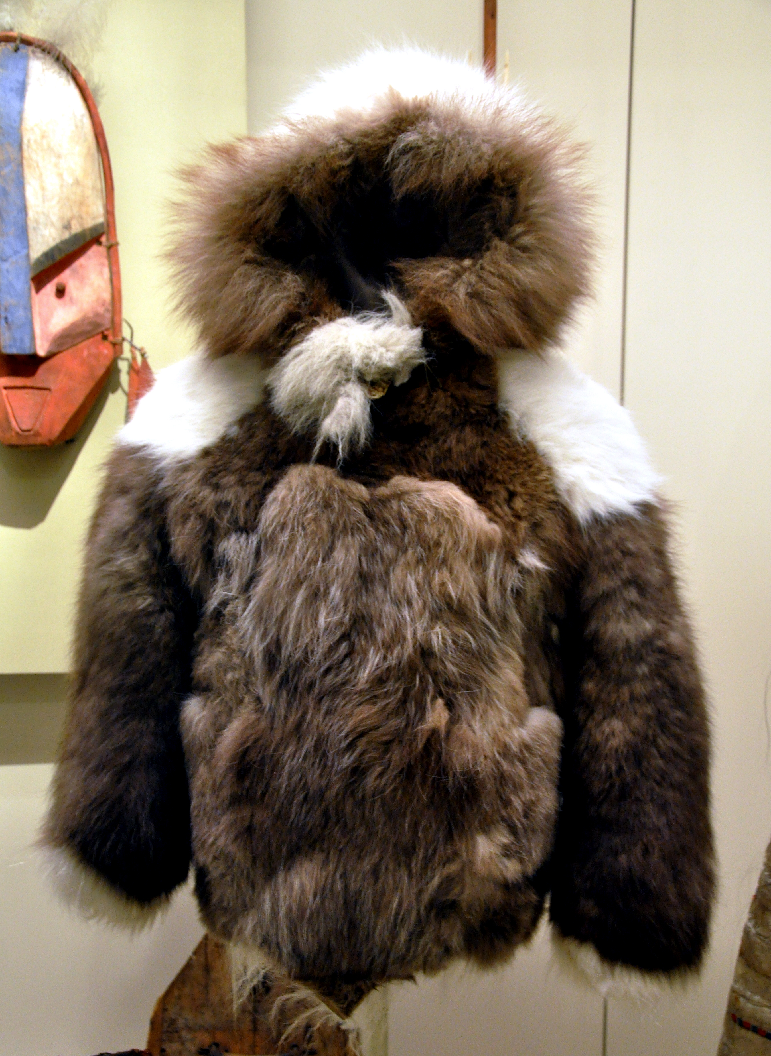 British Museum referenceAm2001,15.1Detailed descriptionGirl's hooded winter jacket ("kapatak"), fox fur, with a small hem of polar bear skin at the body, store-bought textile lining inside. Made in 1973 by Frederikke Petrussen, Qaanaaq, northern Greenland. See also British Museum Website.LocationRoom 26 (Comment of a fur specialist: Probably white winter fur-skin and brown summer fur-skin of polarfuchs, maybe, however as likely not, the brown one could be caribou fur-skin.) --Kürschner (talk) 18:38, 25 June 2011 (UTC)